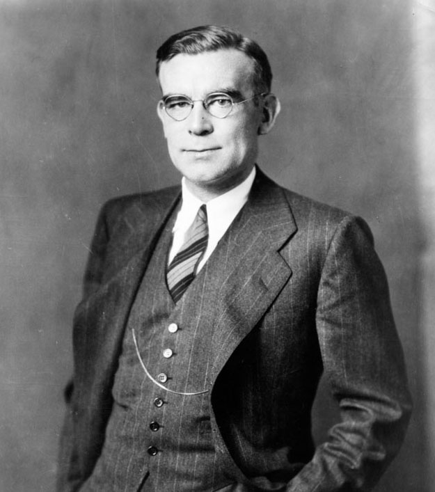 Ralph Munn, president of the ALA from 1939-1940